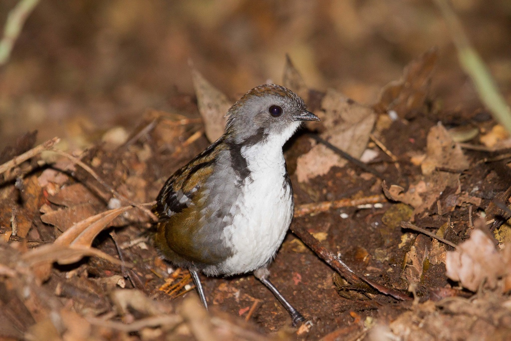 Photo of a male Australian Logrunner